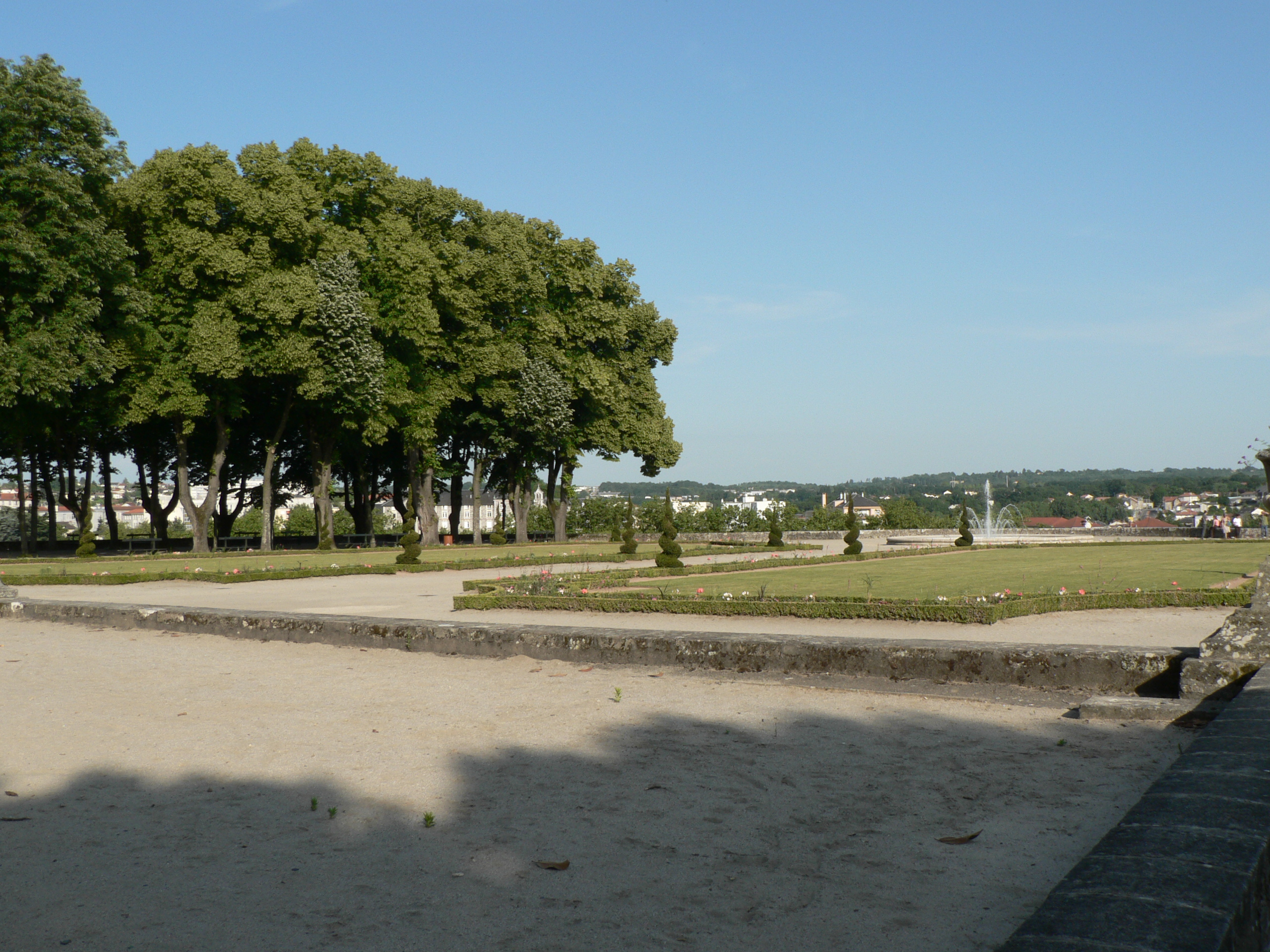 Gardens of Evêché, Limoges, France